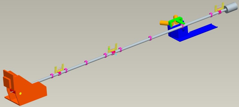 An engineering drawing of the MET mast showing the location of the three thermometers as the yellow, u-shaped devices.